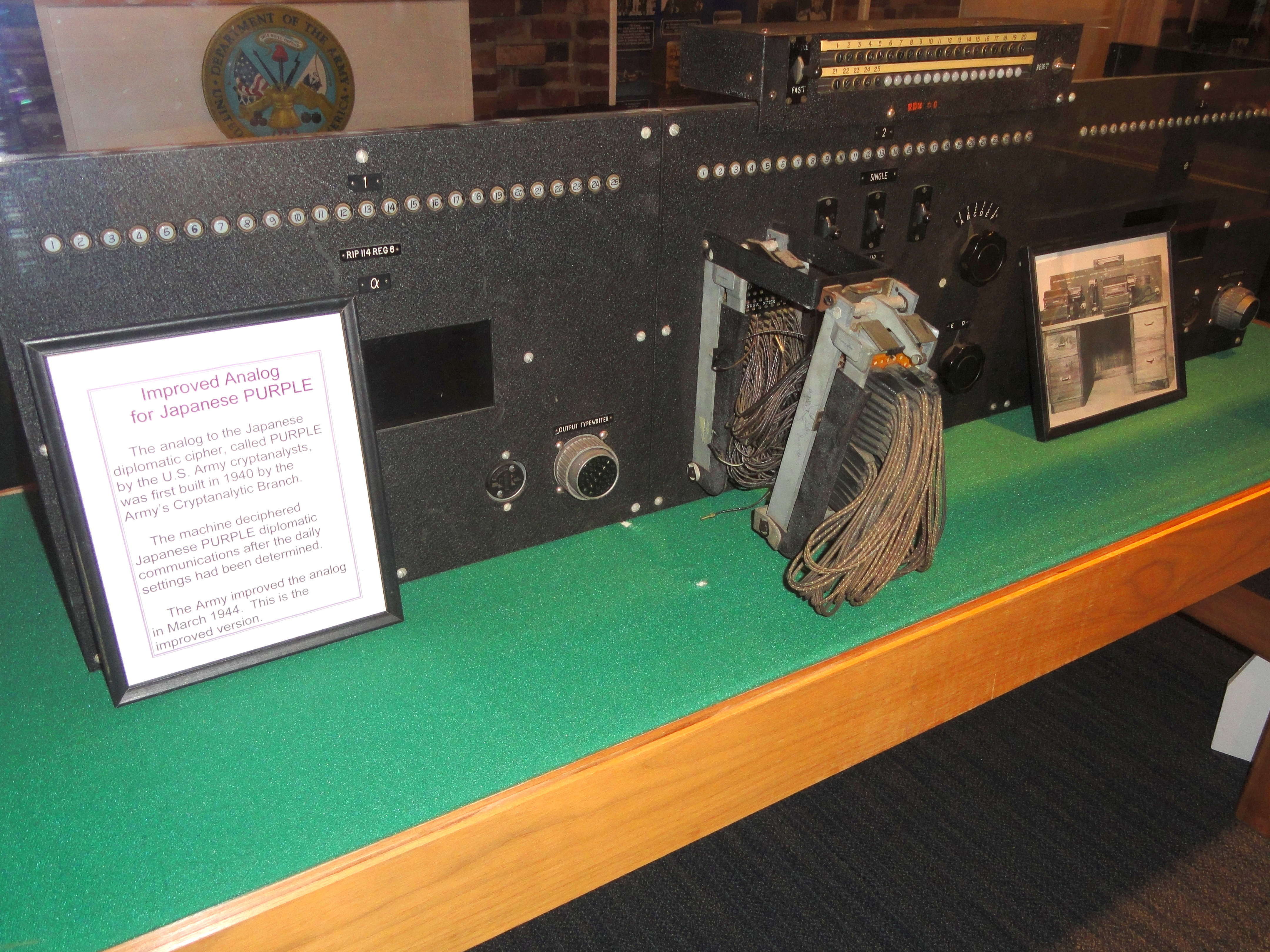 Front panel of the U.S. Army analog of the Japanese Type B Cipher Machine. This is the improved version of March 1944. The three rows of indicator lights show the position of the rotor in each stage. The plugboard in the center has a second connector wired to the connector on the front panel, presumably to minimize wear and tear on the main connector, as the plugboards are changed frequently. The signal connector and power jack for the output typewriter is to the left of the plug board; the input typewriter connector is at the far right. A six position switch selects the stepping order and buttons on the box at top center apparently are used to set the initial position of each rotor. A framed photograph of the unit with its typewriters is adjacent. Exhibit in the National Cryptologic Museum, Fort Meade, Maryland, USA. All items in this museum are unclassified; items created by the United States Government are not subject to copyright restrictions.